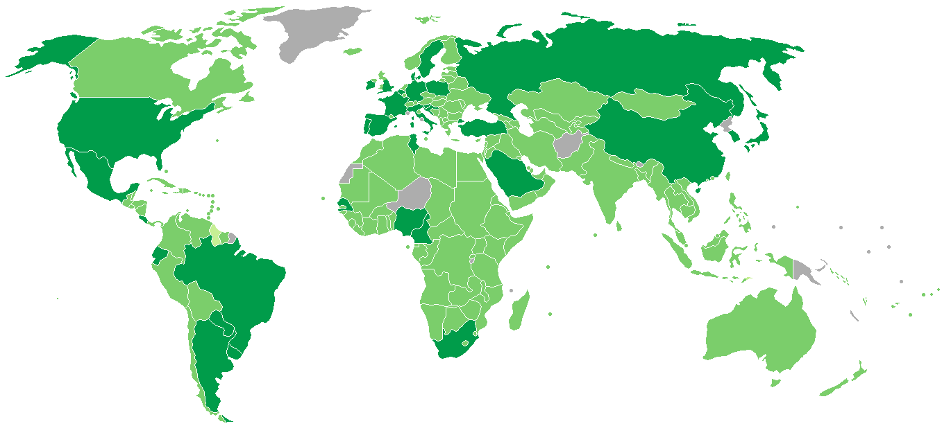 Qualification for the 2002 FIFA World Cup Country didn't participate Country withdrawed or entry didn't accepted by FIFA Country participated in the qualification tournament Country qualified to the finals